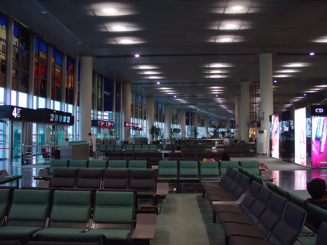 Departure Lounge of Macau International Airport.(Macau, Macau)